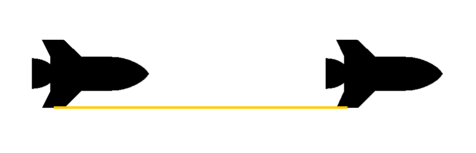 Bell's spaceship paradox - initial setup